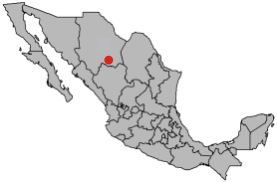 —Location map of Parral — in southern Chihuahua state, México.